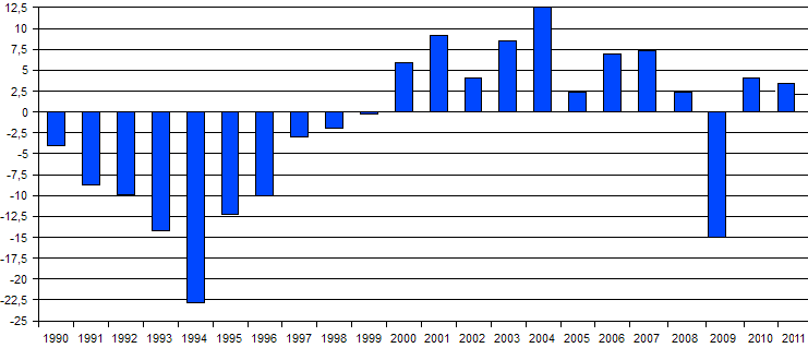 Ukraine's GDP real annual growth rate since 1990